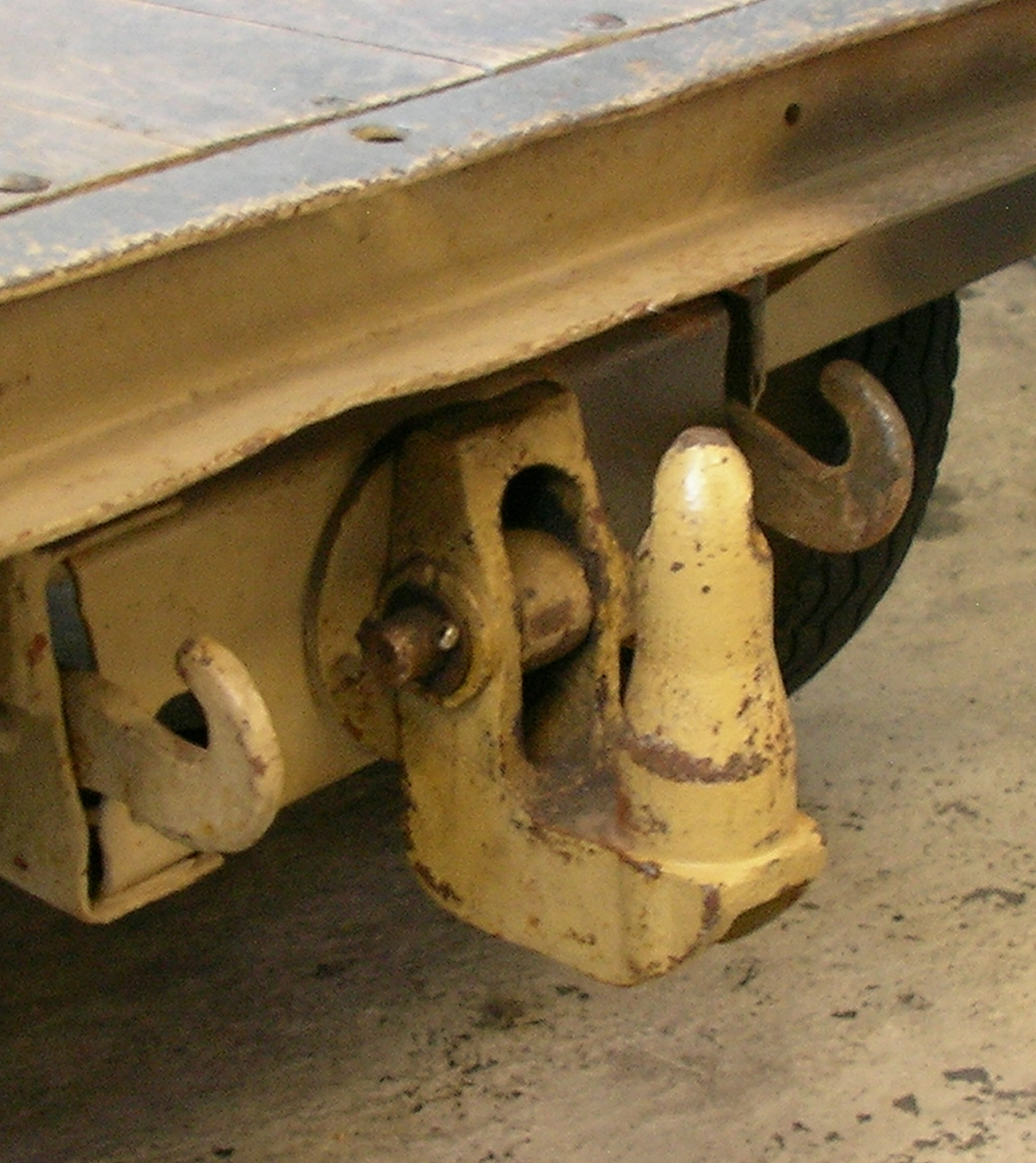 Einheitsprotzhaken (trailer connector attached at) Krupp L 2 H 43 - Sd. Kfz. 69 - "Krupp-Protze", light 6x4 1 ton truck